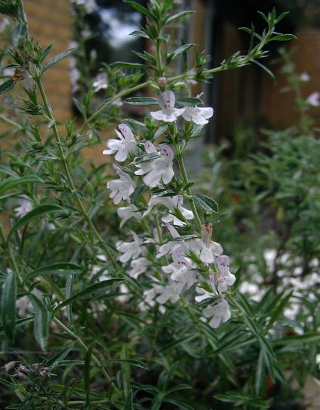 Satureja montana: Flowers and foliage.